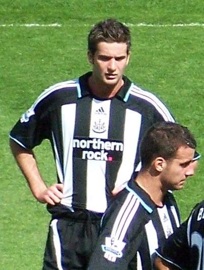 Canadian football (soccer) player David Edgar